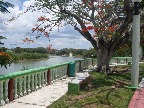 foto del rio usumacinta